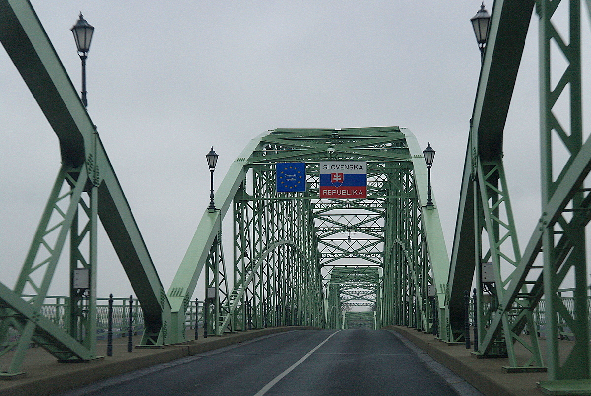 Maria Valeria Bridge over Danube, connecting the Slovak Štúrovo with the Hungarian Esztergom. Built in 1895, partially destroyed in 1944, restored in 2001.